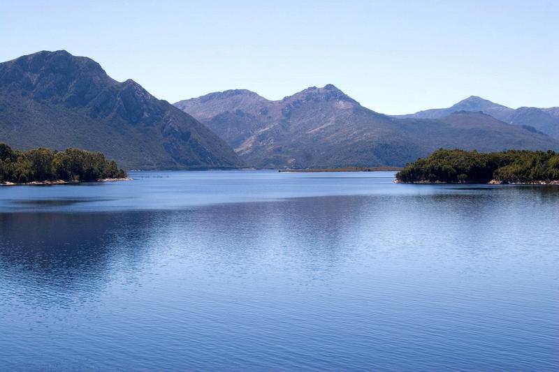 Taken from the road bridge (Bradhsaws Bridge) with Lake Burbury, Tasmania in foreground, looking north. Mount Owen, Tasmania on left, Mount Lyell, Tasmania in centre and Mount Sedgwick, Tasmania peak on right.